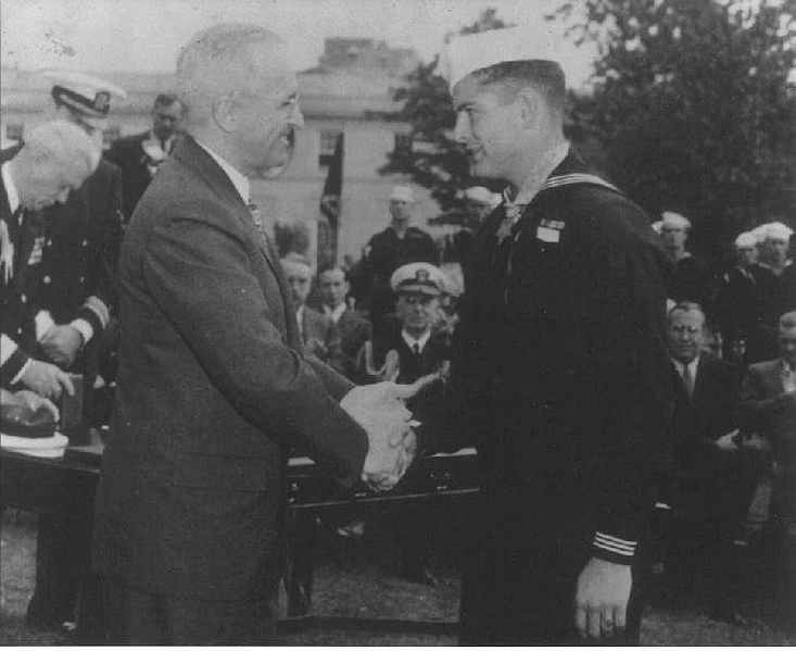 This is a publicity news photograph of President Truman presenting the Medal of Honor to Robert E. Bush just after the end of World War II.